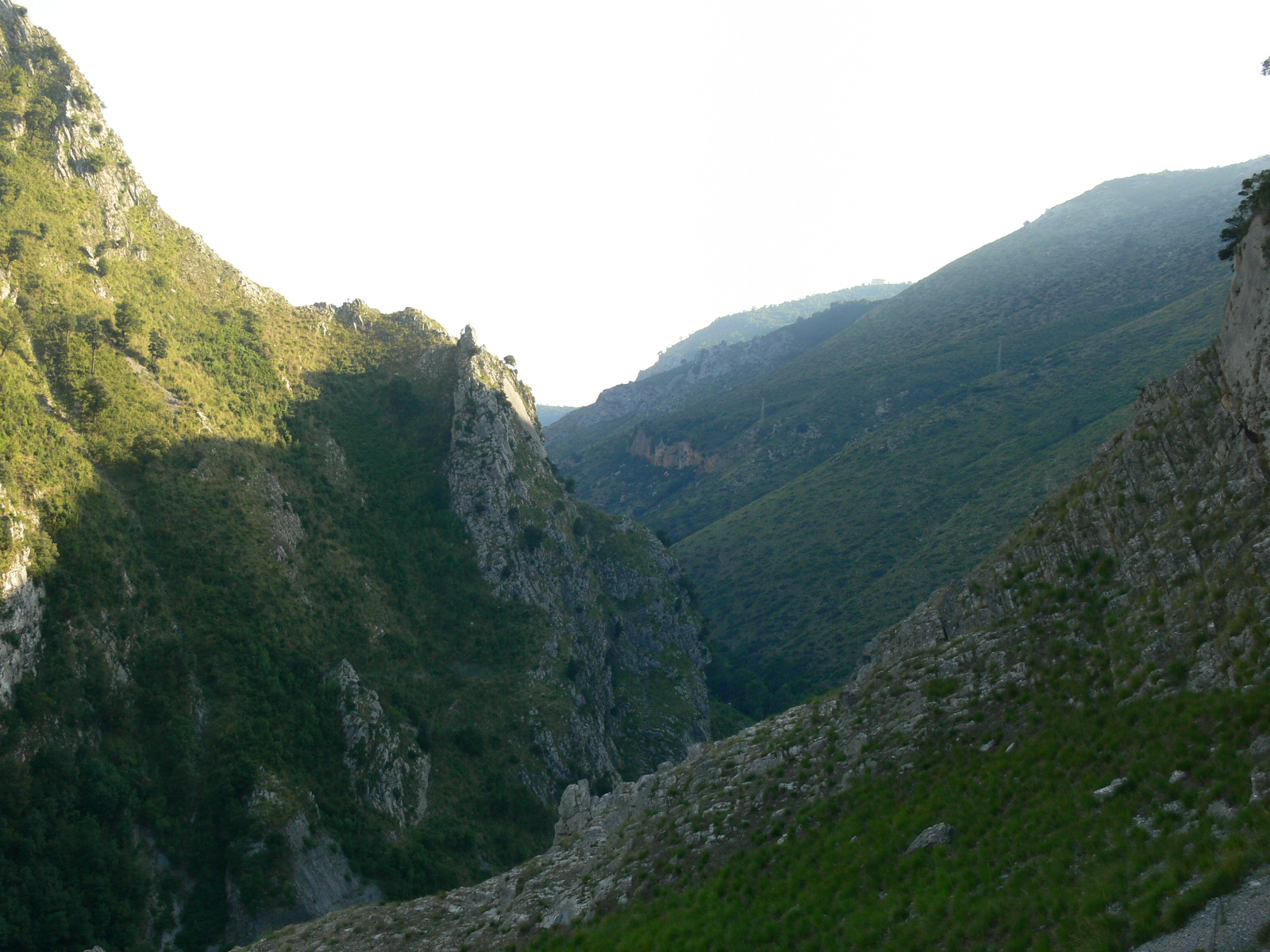 Mingardo Valley — in the Cilento region of the Province of Salerno, Campania, southern Italy. Within Cilento and Vallo di Diano National Park.